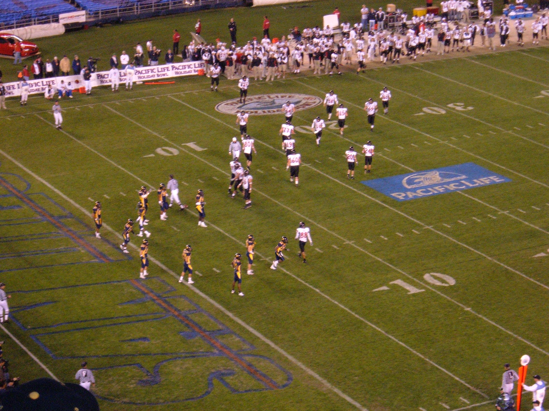 The Cal Golden Bears on defense during the 2004 Holiday Bowl at Qualcomm Stadium in San Diego, California against the Texas Tech Red Raiders. The Red Raiders won 45-31.